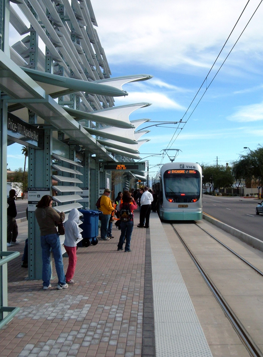 Photograph of the Loop 101 (Price Freeway) (or Apache at Price) Station of METRO Light Rail that serves the Phoenix area, Arizona, USA. This view is from the station platform, depicting the train as it arrives at the station and passengers disembark. This photograph was taken during the light rail's grand opening celebration on December 27, 2008.